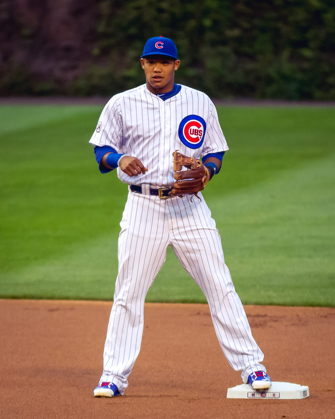 Chicago Cubs 2B Addison Russell